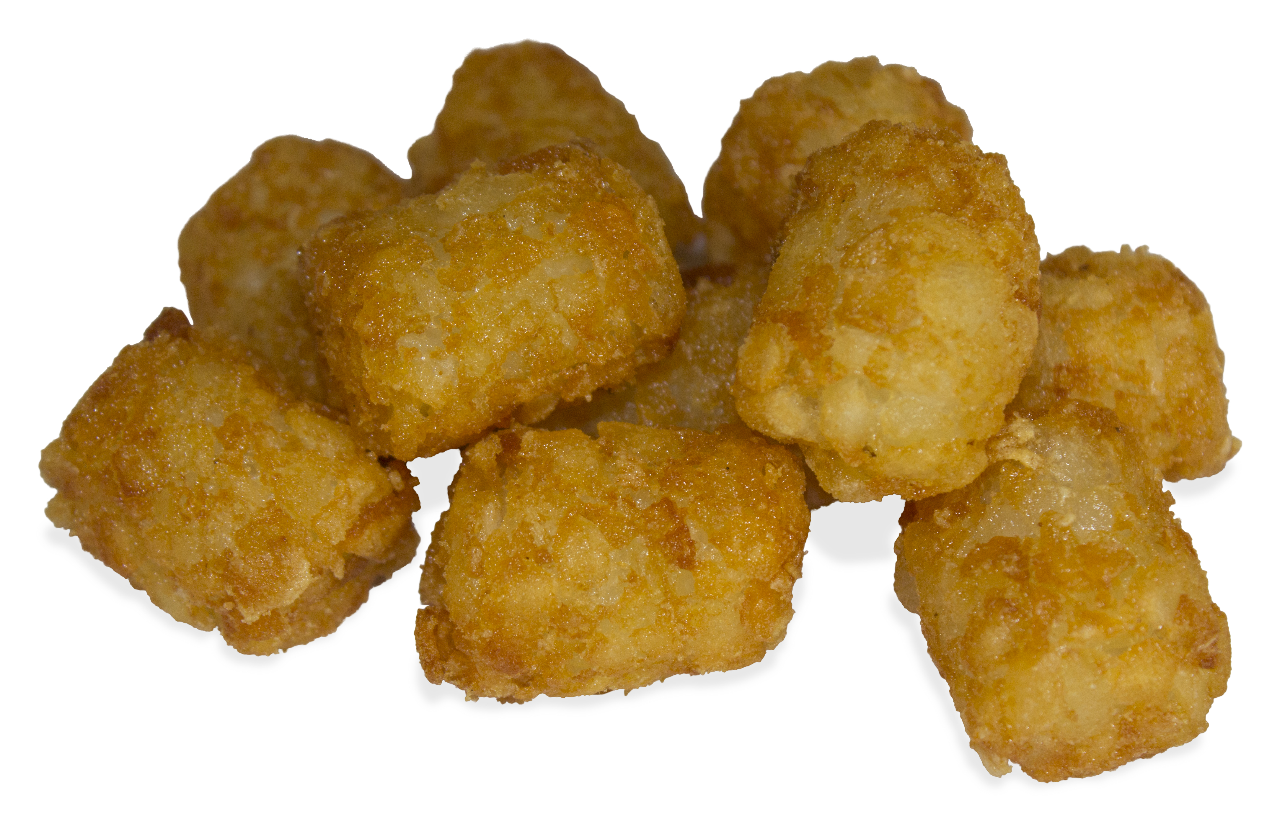 Hash browns (known as "pom-poms") at a KFC in Yogyakarta, Indonesia.